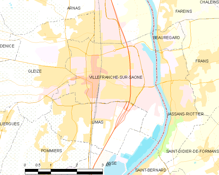 Map of French municipality